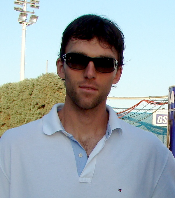 Ivo Karlović at Croatia Open Umag